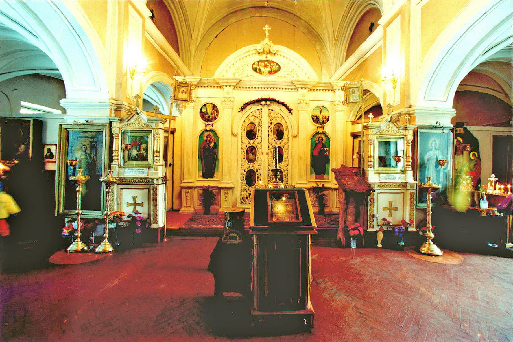 Krasnoye Selo (Russia)